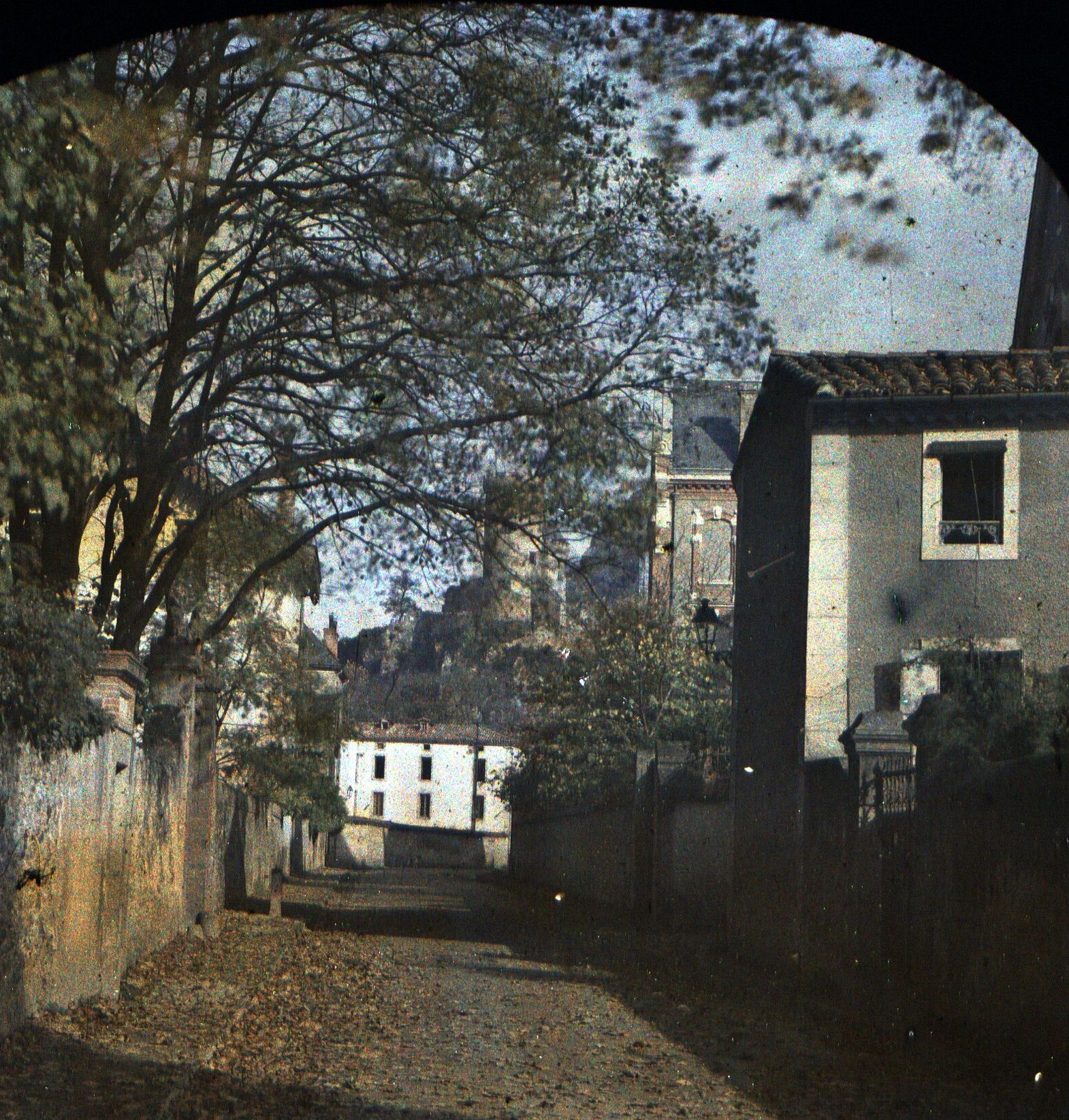 An autochrom of the Occitan city of Foix (by Eugène Trutat. Note: the picture is left-right inverted)